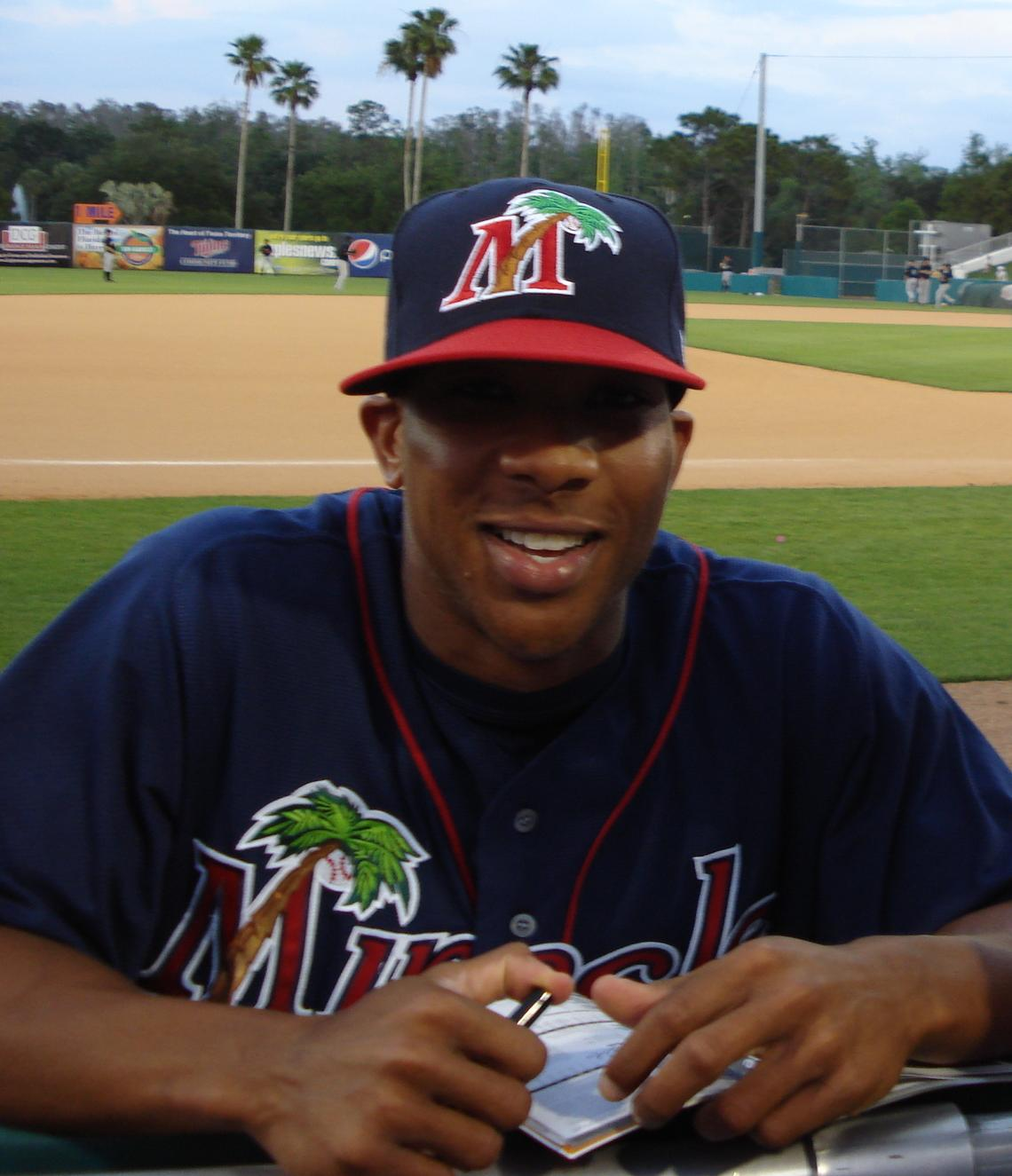 The Minnesota Twins' Ben Revere